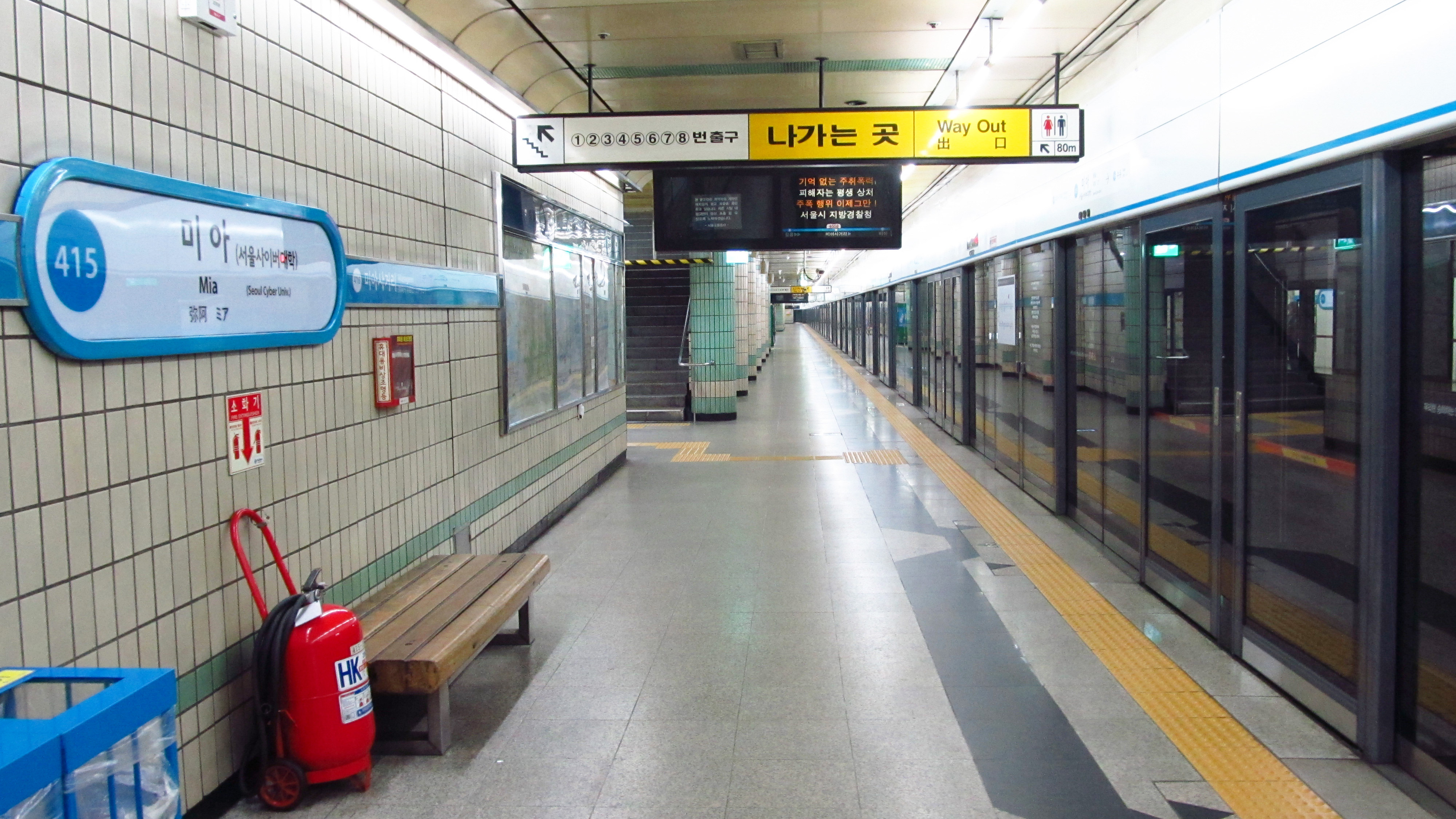 The platform at Mia Station on Seoul Subway Line 4 in Gangbuk-gu, Seoul, Republic of Korea(South Korea)